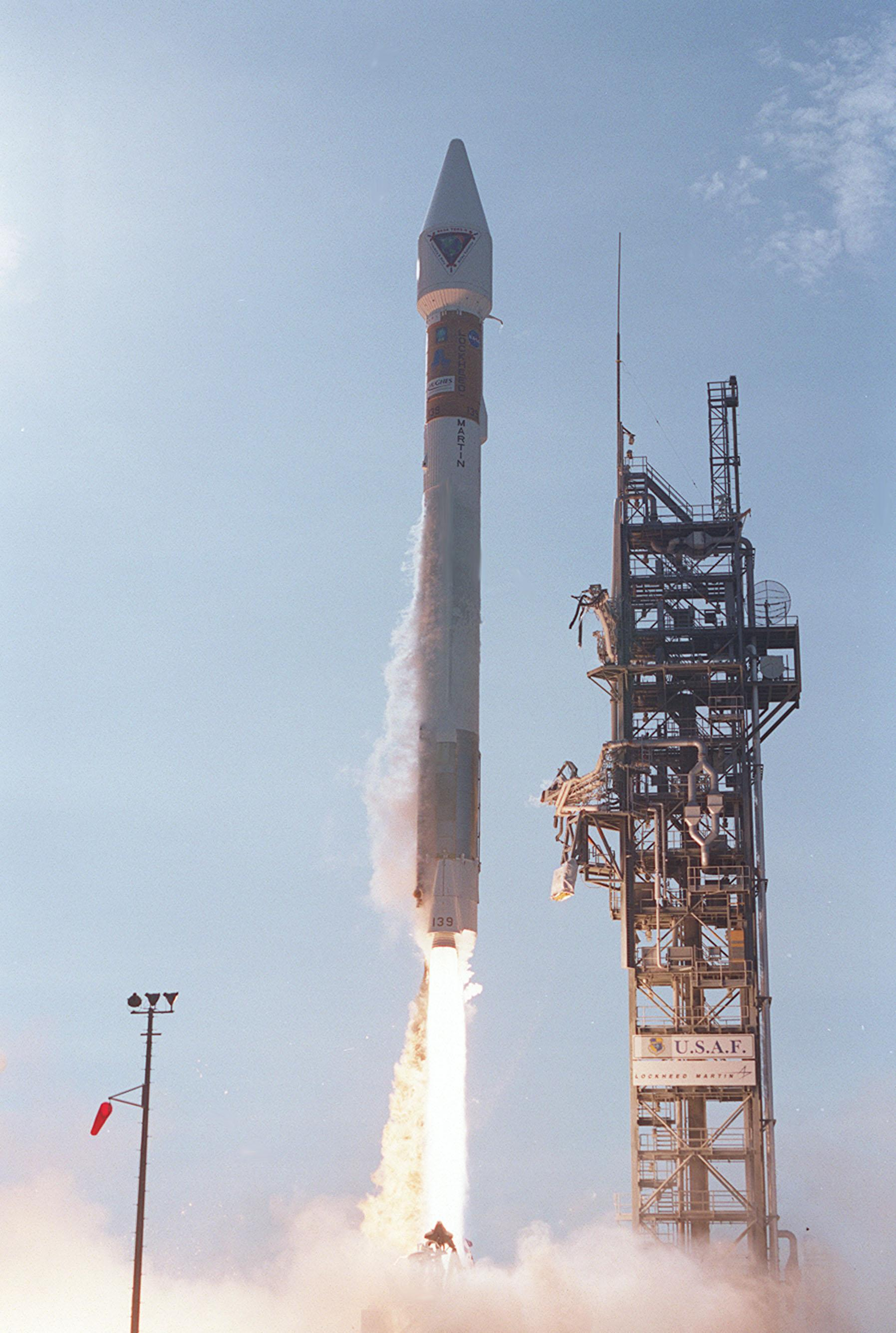 Looking like a Roman candle, NASA’s Tracking and Data Relay Satellite (TDRS-H) shoots into the blue sky aboard an Atlas IIA/Centaur rocket from Pad 36A, Cape Canaveral Air Force Station. Liftoff occurred at 8:56 a.m. EDT. One of three satellites (labeled H, I and J) being built by the Hughes Space and Communications Company, the latest TDRS uses an innovative springback antenna design. A pair of 15-foot-diameter, flexible mesh antenna reflectors fold up for launch, then spring back into their original cupped circular shape on orbit. The new satellites will augment the TDRS system’s existing Sand Ku-band frequencies by adding Ka-band capability. TDRS will serve as the sole means of continuous, high-data-rate communication with the space shuttle, with the International Space Station upon its completion, and with dozens of unmanned scientific satellites in low earth orbit.